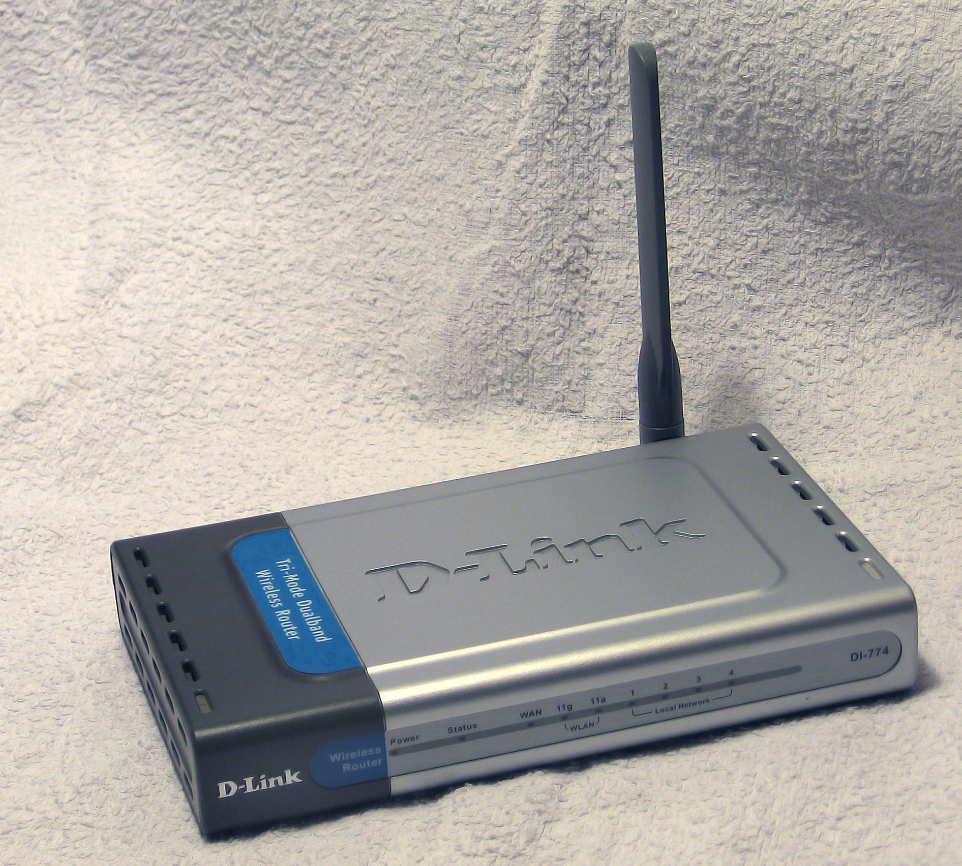 D-Link DI-774 Tri-Mode A/B/G Dualband Wireless Router ( 802.11a 802.11b 802.11g ) (Front)